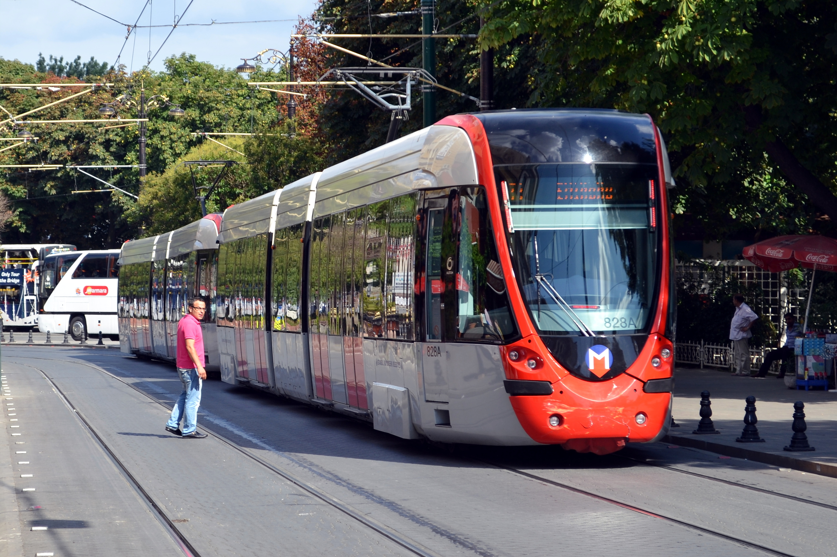 Alstom Citadis tram of the T1 tramway line in Istanbul, Turkey.